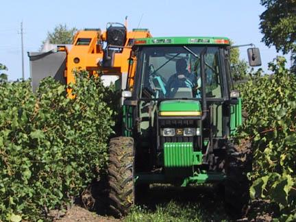 Harvest at Reif Estate Winery.